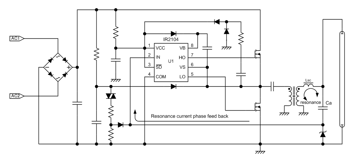 Current Resonant CCFL Inverter circuit for the CCFL lighting